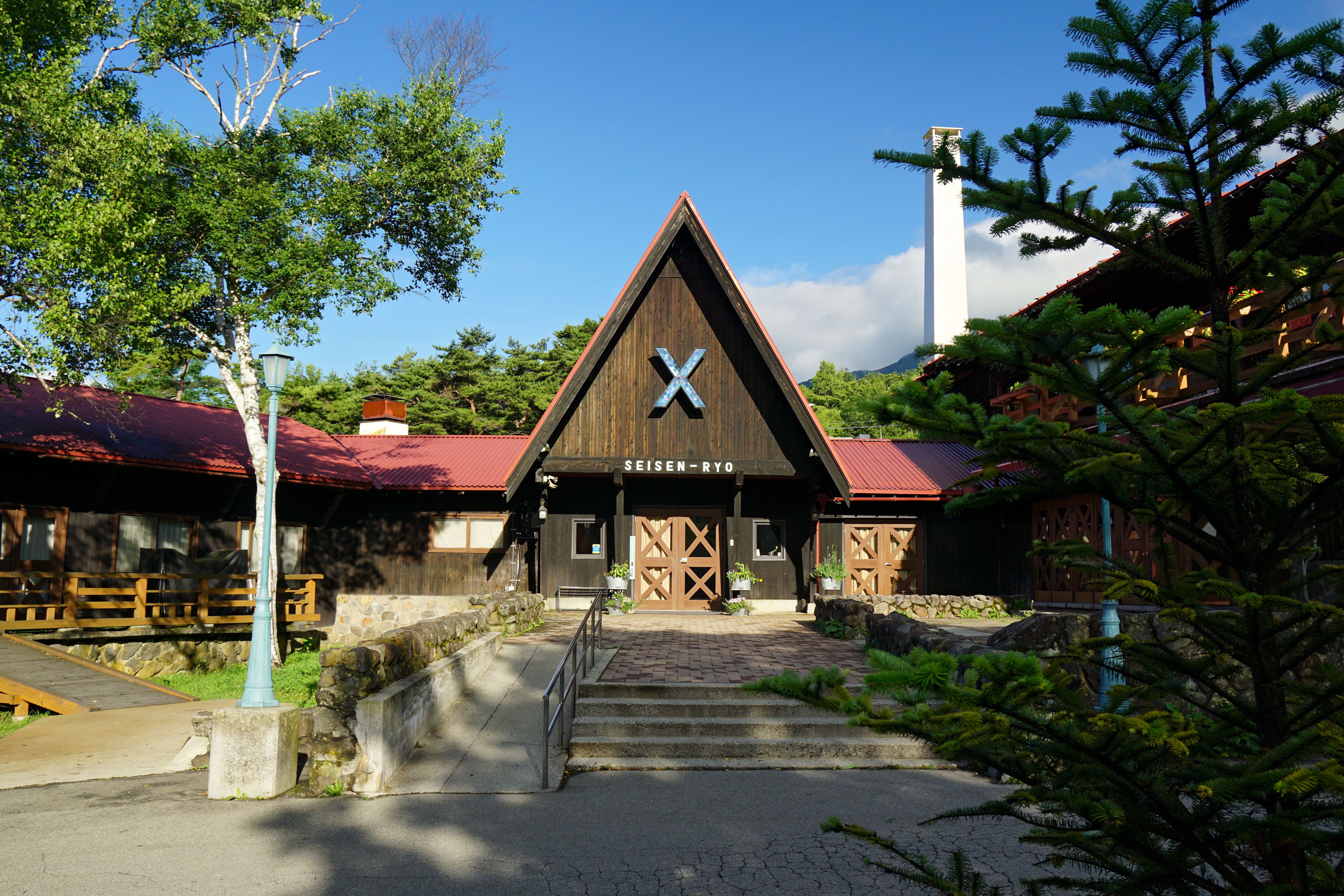 Seisen-ryo in Hokuto, Yamanashi prefecture, Japan.